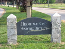 Photograph taken by Bart Lacks